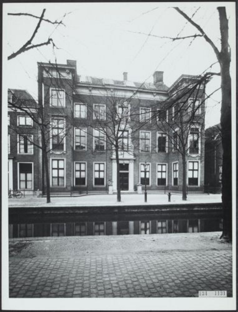 Gebouw van de Polytechnische school te Delft